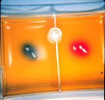 Early positive result on Dermatophyte Test Medium / Rapid Sporulation Medium; M. canis